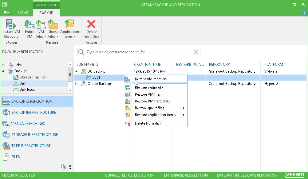 Instant recovery of ESXi VM